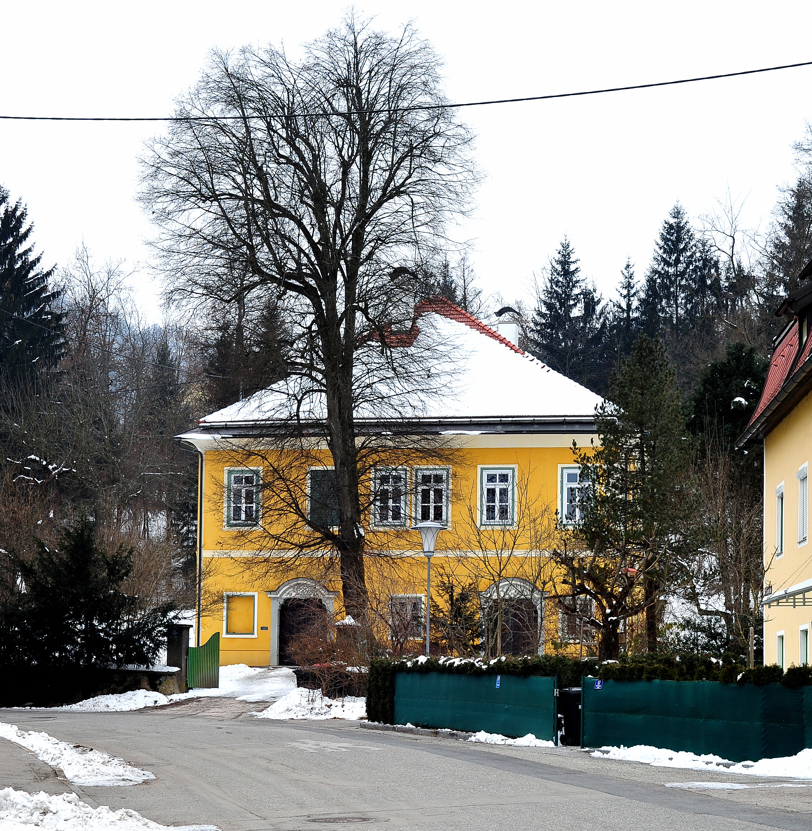 Villa “Miller-Aichholz” on the Stift-Viktring-Strasse #14 in the 13th district "Viktring" of the Carinthian capital Klagenfurt on the Lake Woerth, Carinthia, Austria